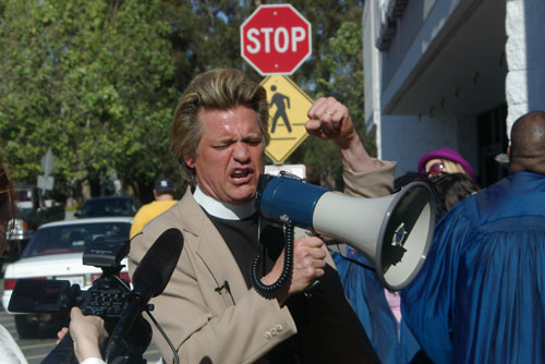 Reverend Billy and the Church of Stop Shopping